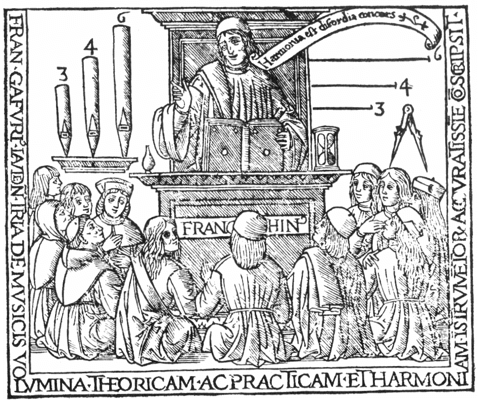 Franchinus Gaffurius among twelve scholars.